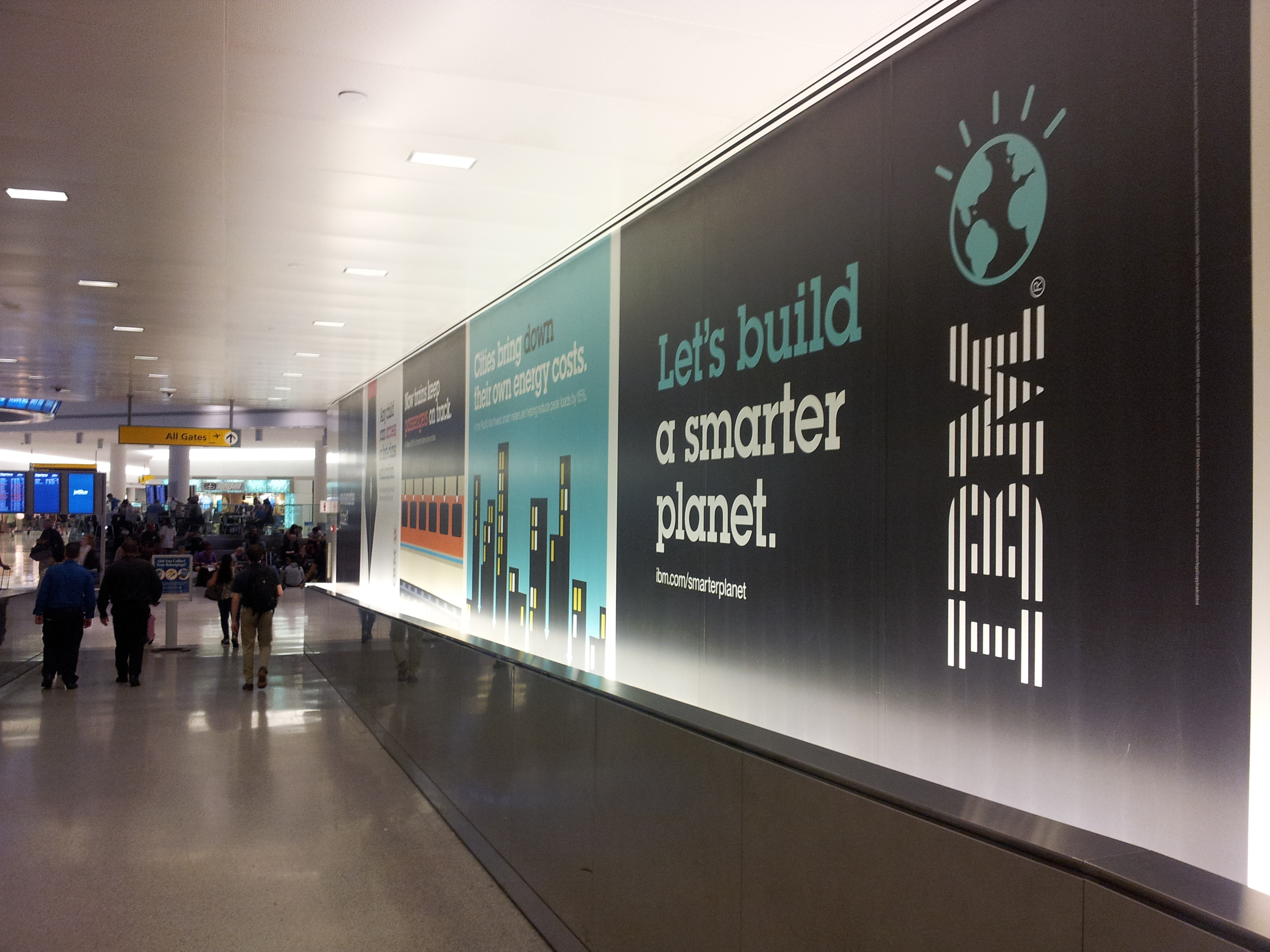 IBM ads on display at JFK Airport, 2013